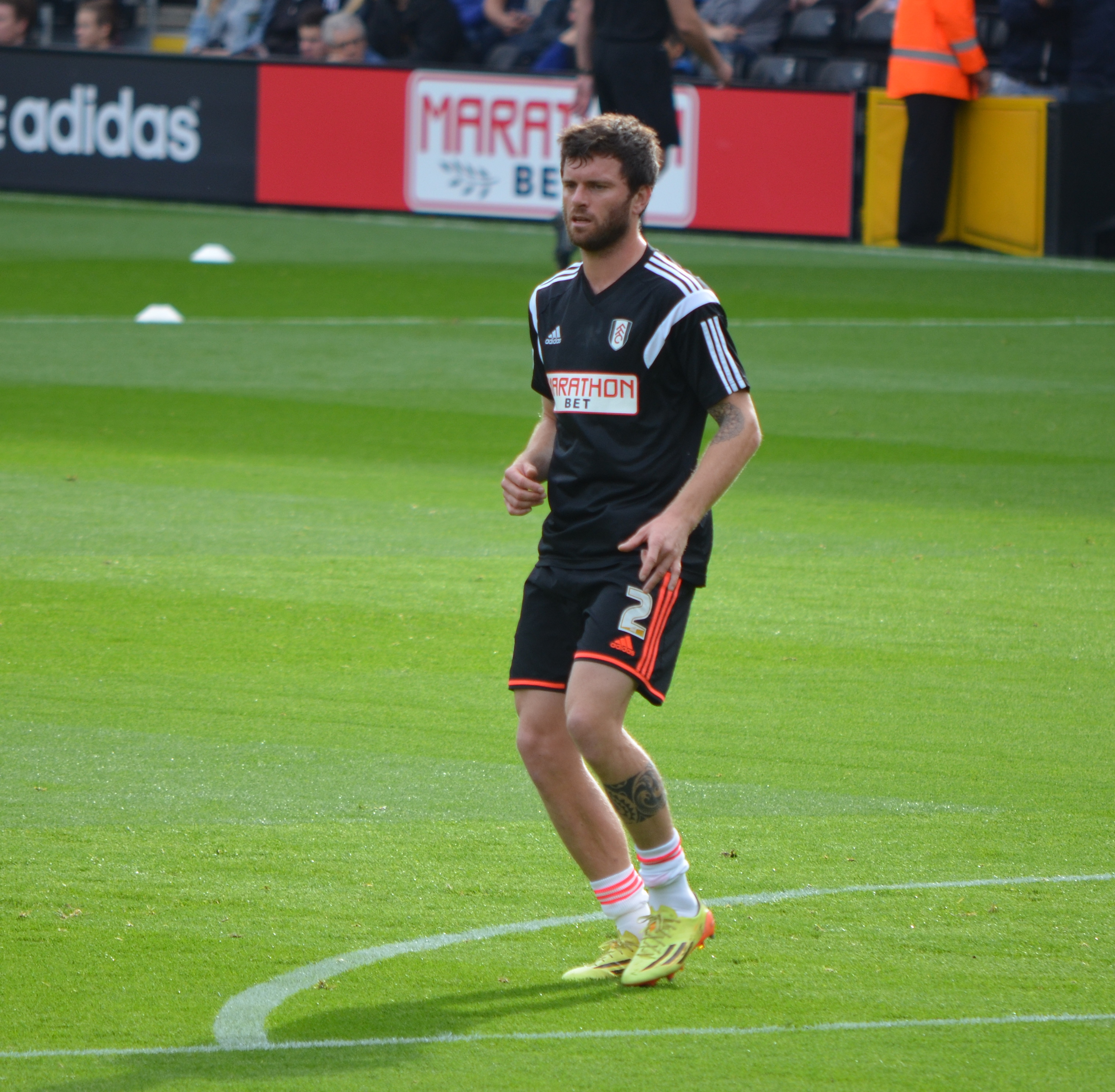 Hoogland, Fulham FC